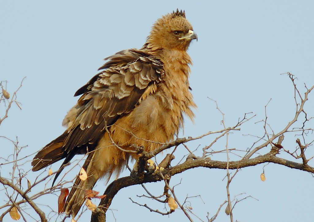 Graham Searlle, Photographed in Kruger National Park, South Africa